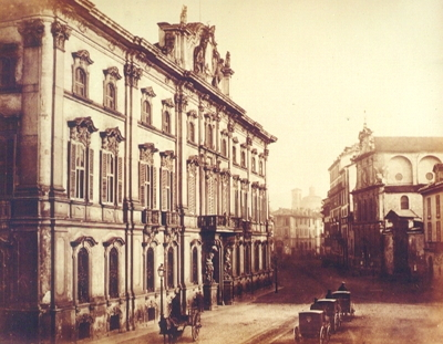 Pompeo Pozzi (1817-1880), Palazzo Litta palace in Milan, Italy, around 1870. 1870s. Today.